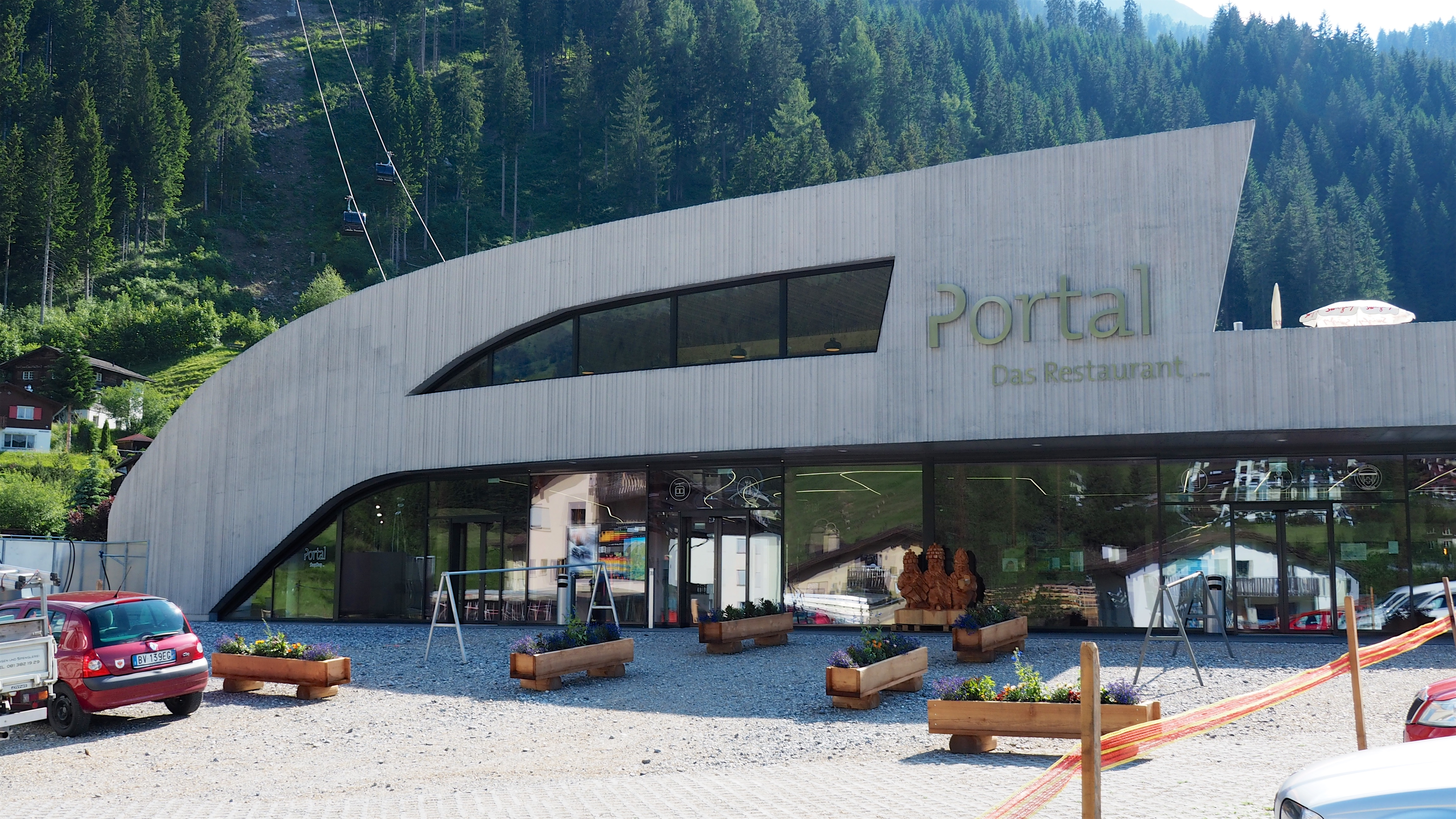 Entry point "Portal" of ski resort Arosa Lenzerheide at Churwalden/Switzerland